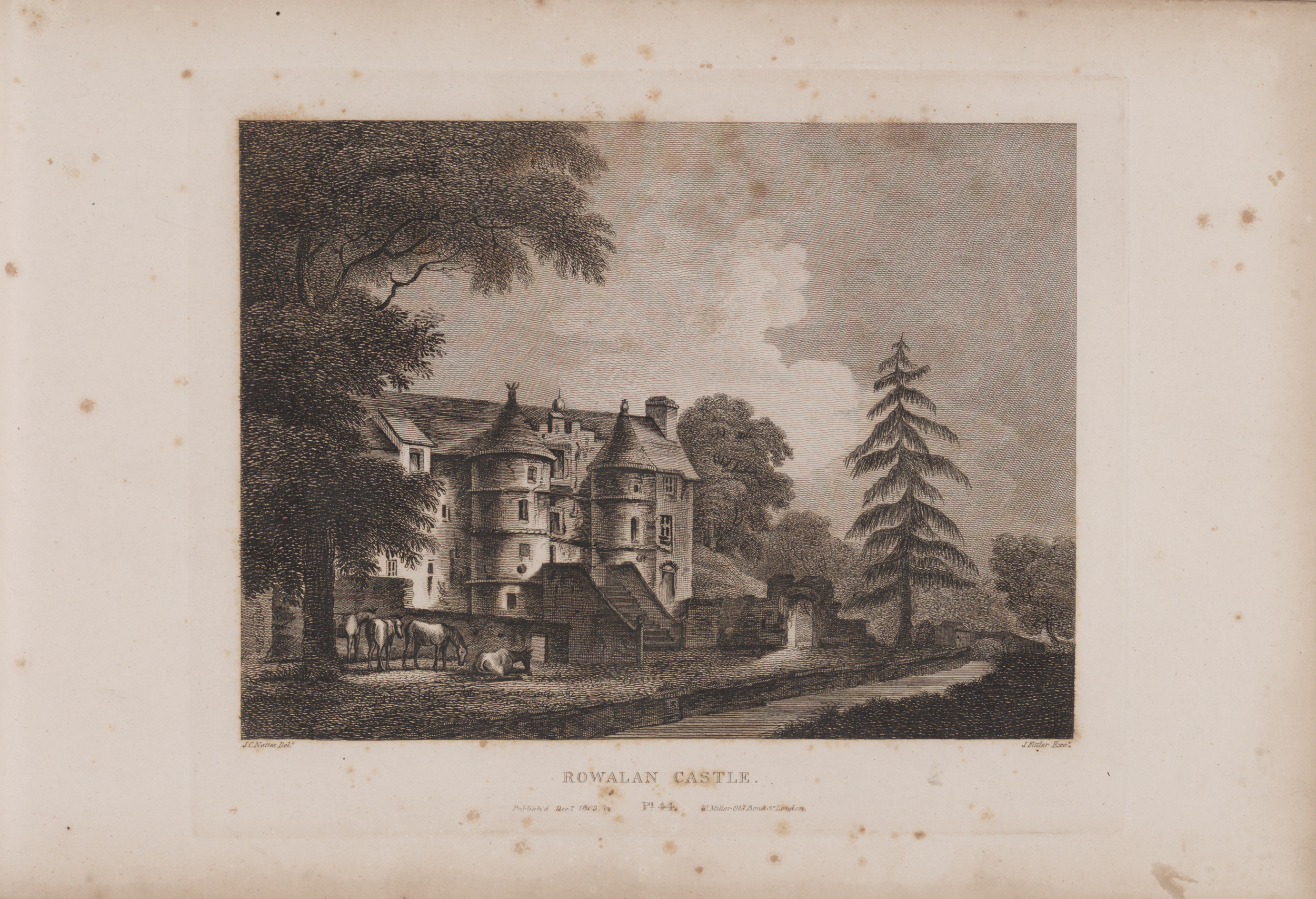 Plate XLIV/b - John Claude Nattes made drawings of suitable scenes on the spot; etchings are by James Fittler.